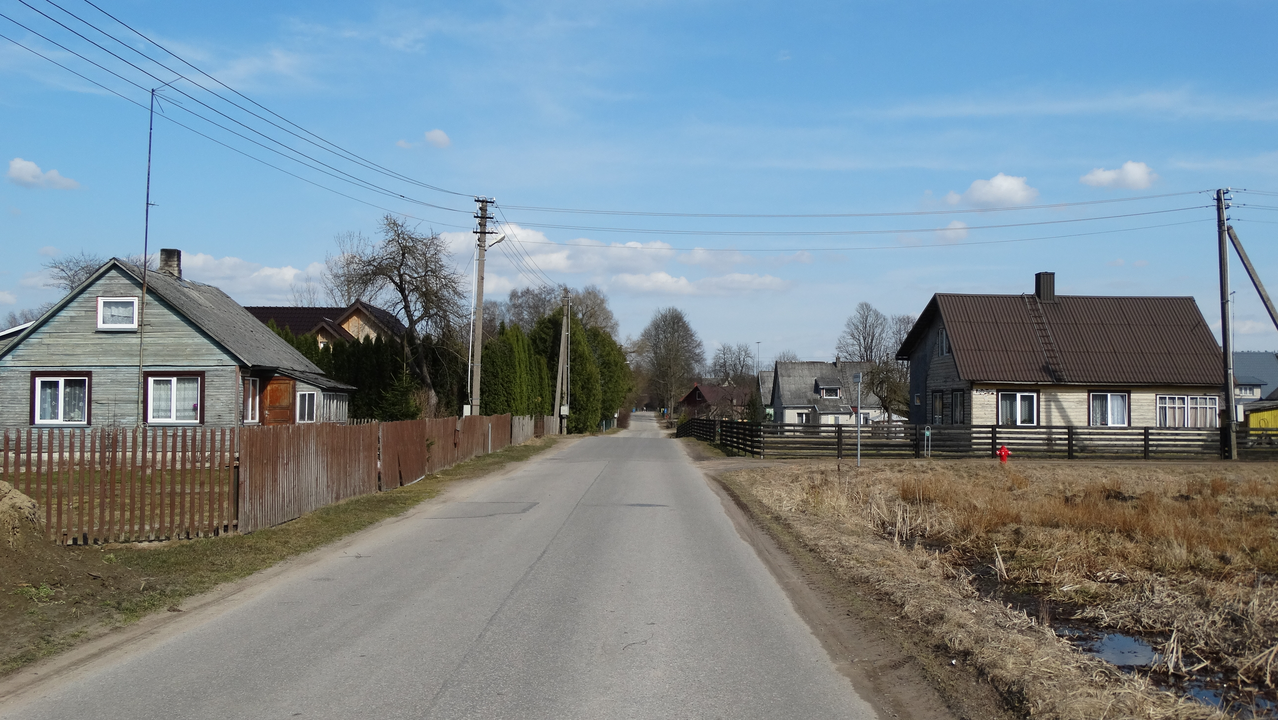 Jūrė village, Kazlų Rūda municipality, Lithuania